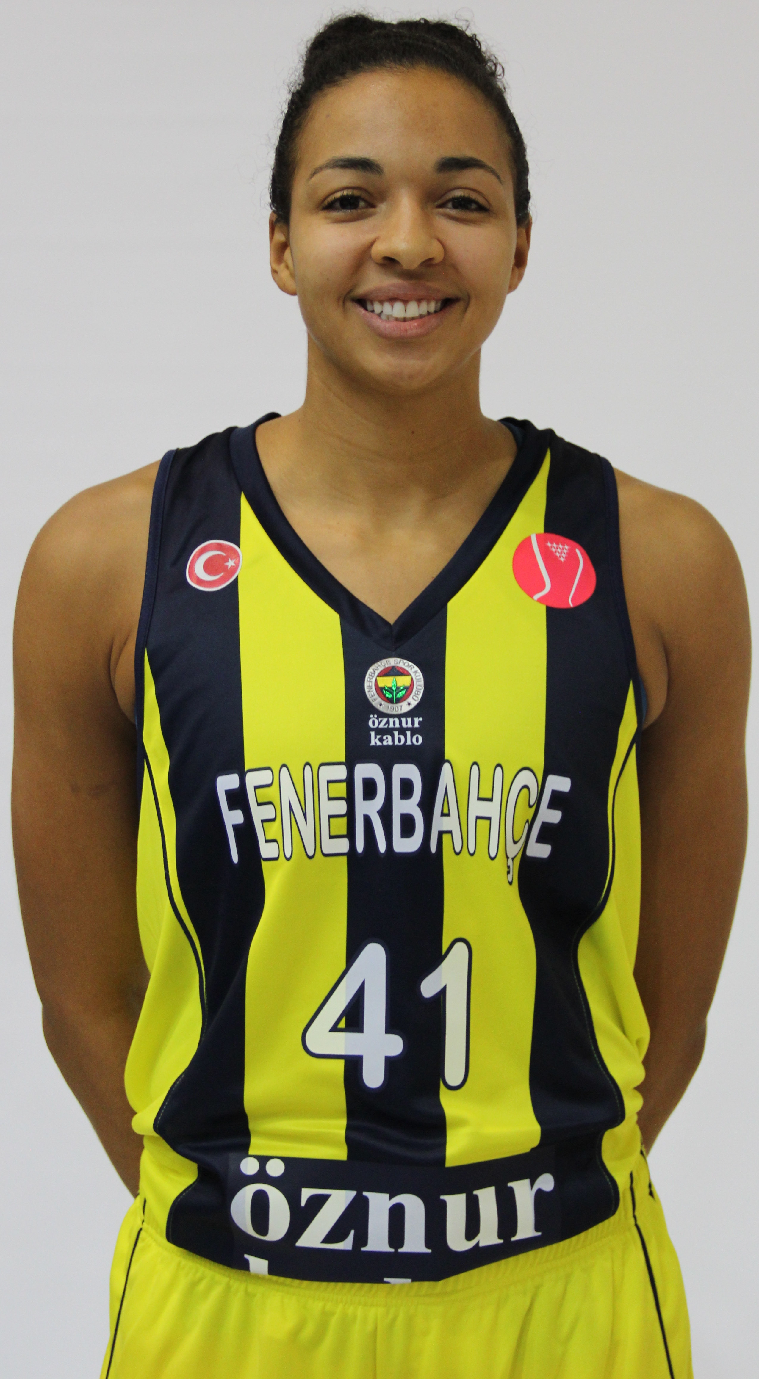 Kiah Stokes 41 Fenerbahçe Women's Basketball 20191031